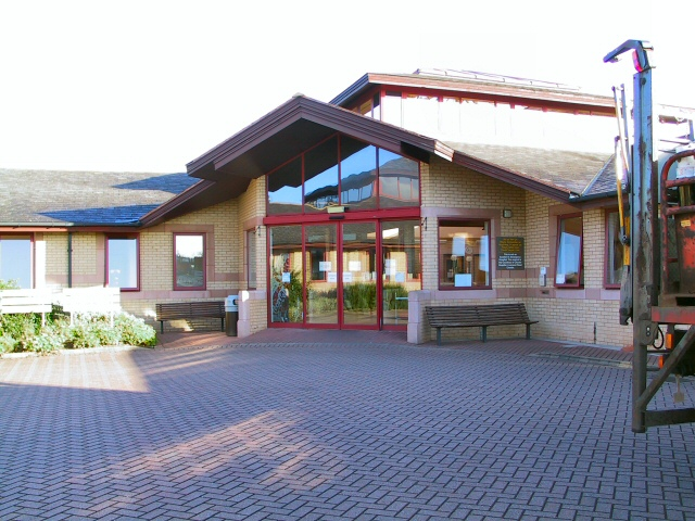 Deeside Community Hospital. The main entrance to the Hospital, at Higher Shotton, Deeside.